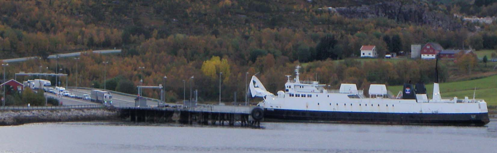 The ferry port at Bognes in Tysfjord, Nordland, Norway.